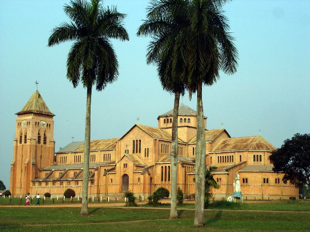 Catholic cathedral of the Jesuit mission of Kisantu, Bas-Congo. Photo 2008.